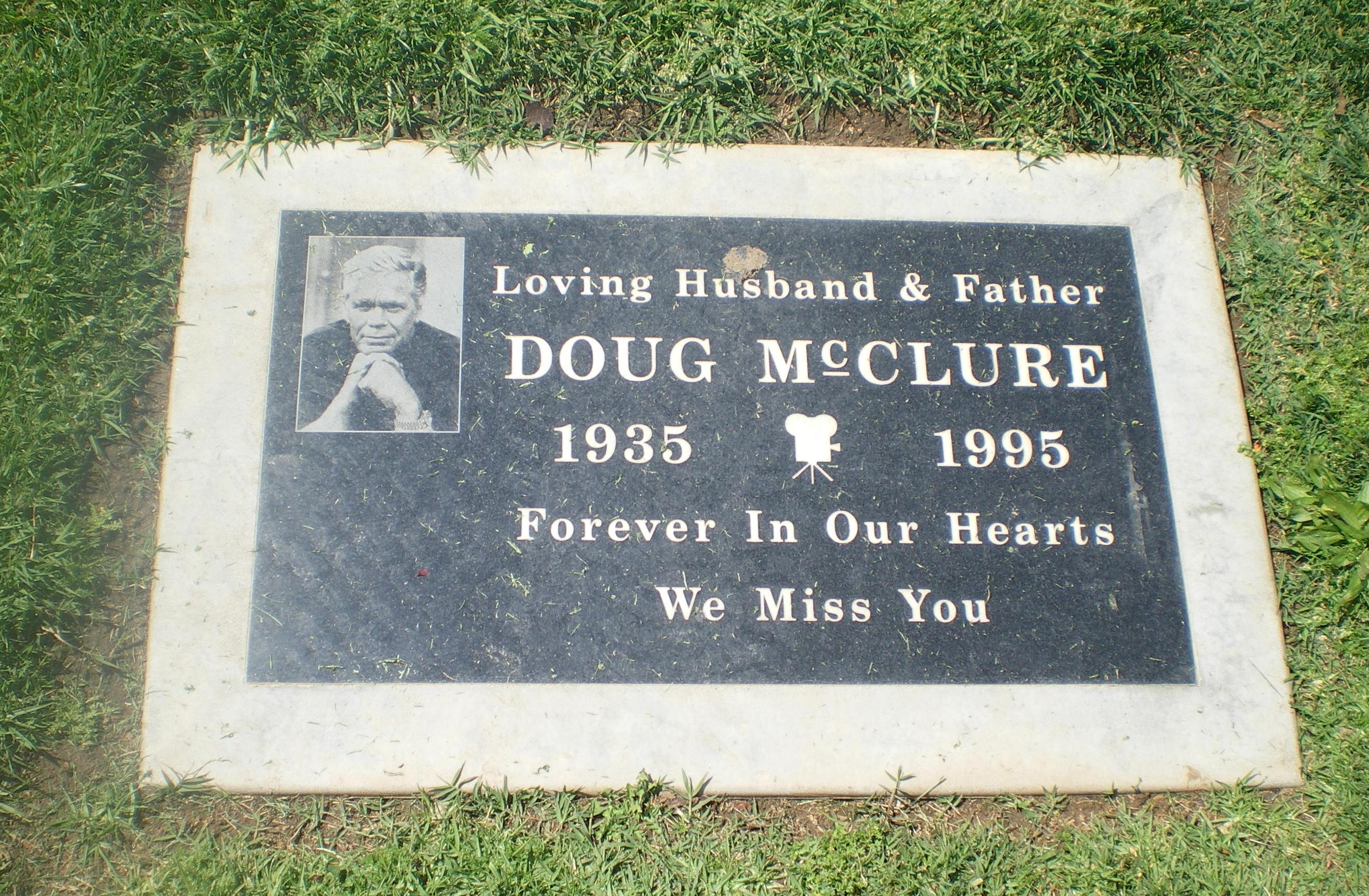 Doug McClure Grave Woodlawn Cemetery, Santa Monica, California